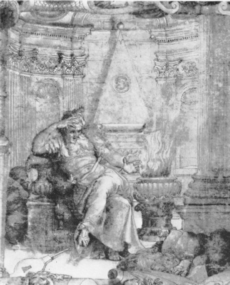 Francesco de' Rossi: Winter, detail from the modello for the 'Seasons' tapestry series. Pen and brown ink, white heightening. Florence, Uffizi. In the background there is the only known depiction of one of the pyramidal Chigi tombs in Santa Maria del Popolo in the form as Raphael originally designed them.